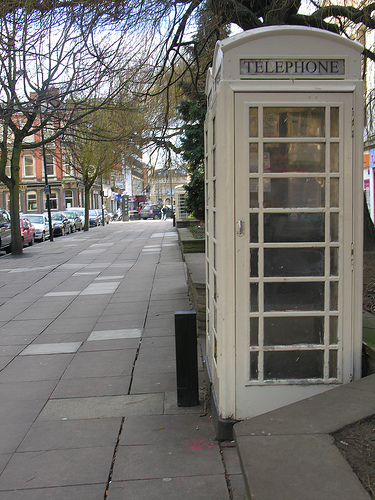 Photo of a Kingston Communications payphone in Hull.